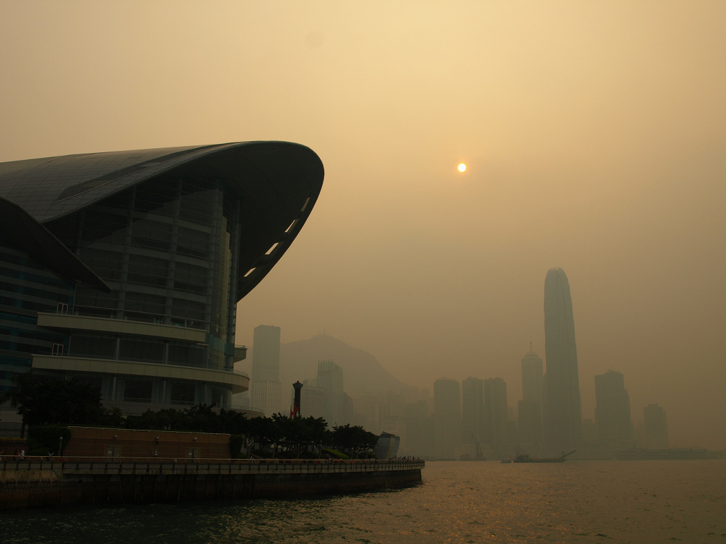 Air Pollution in Victoria Harbour in Hong Kong